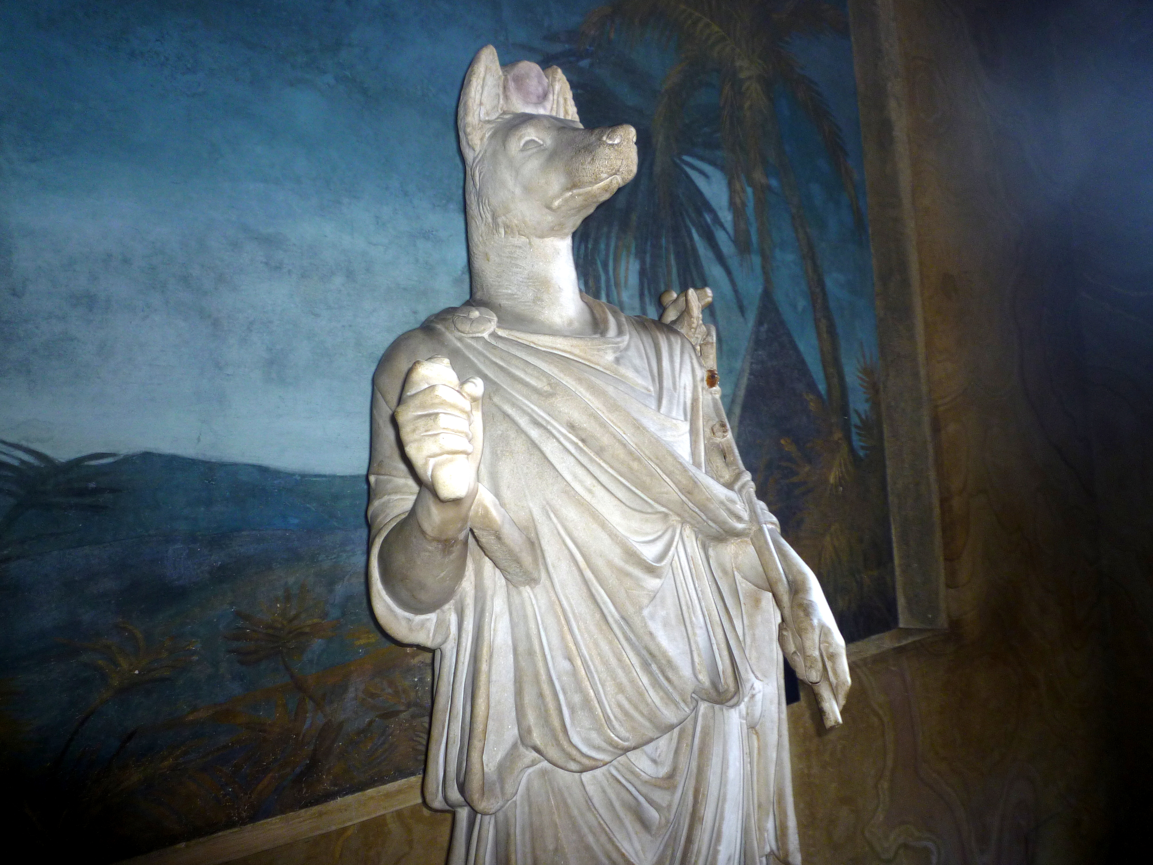 Musei Vaticani